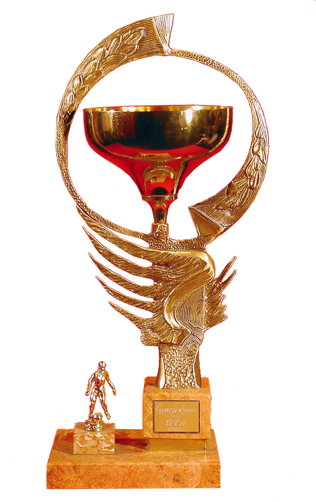 The first Bulgarian football Supercup trophy awarded to CSKA Sofia in 1989